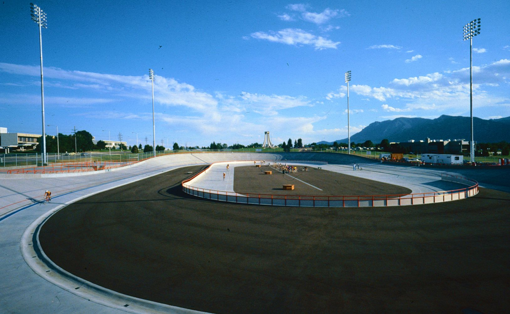 The velodrome was built in 1983. A number of improvements have been added since then.